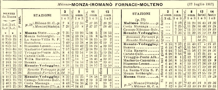 FBC 1917 timetable